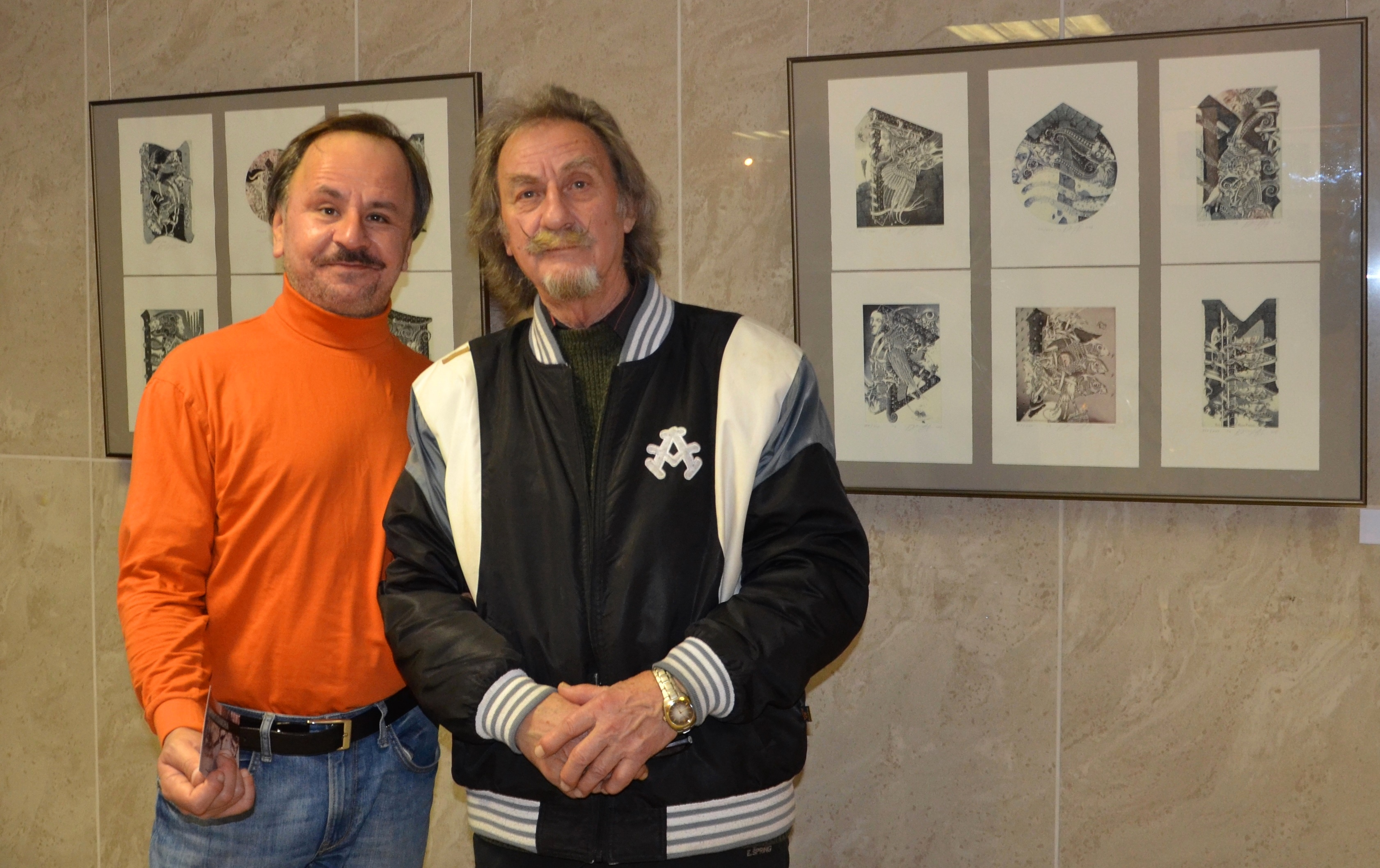 Оpening of an exhibition of graphics of Yury Yakovenko "the Kingdom of Solomon" in National library of Belarus on October 30, 2014